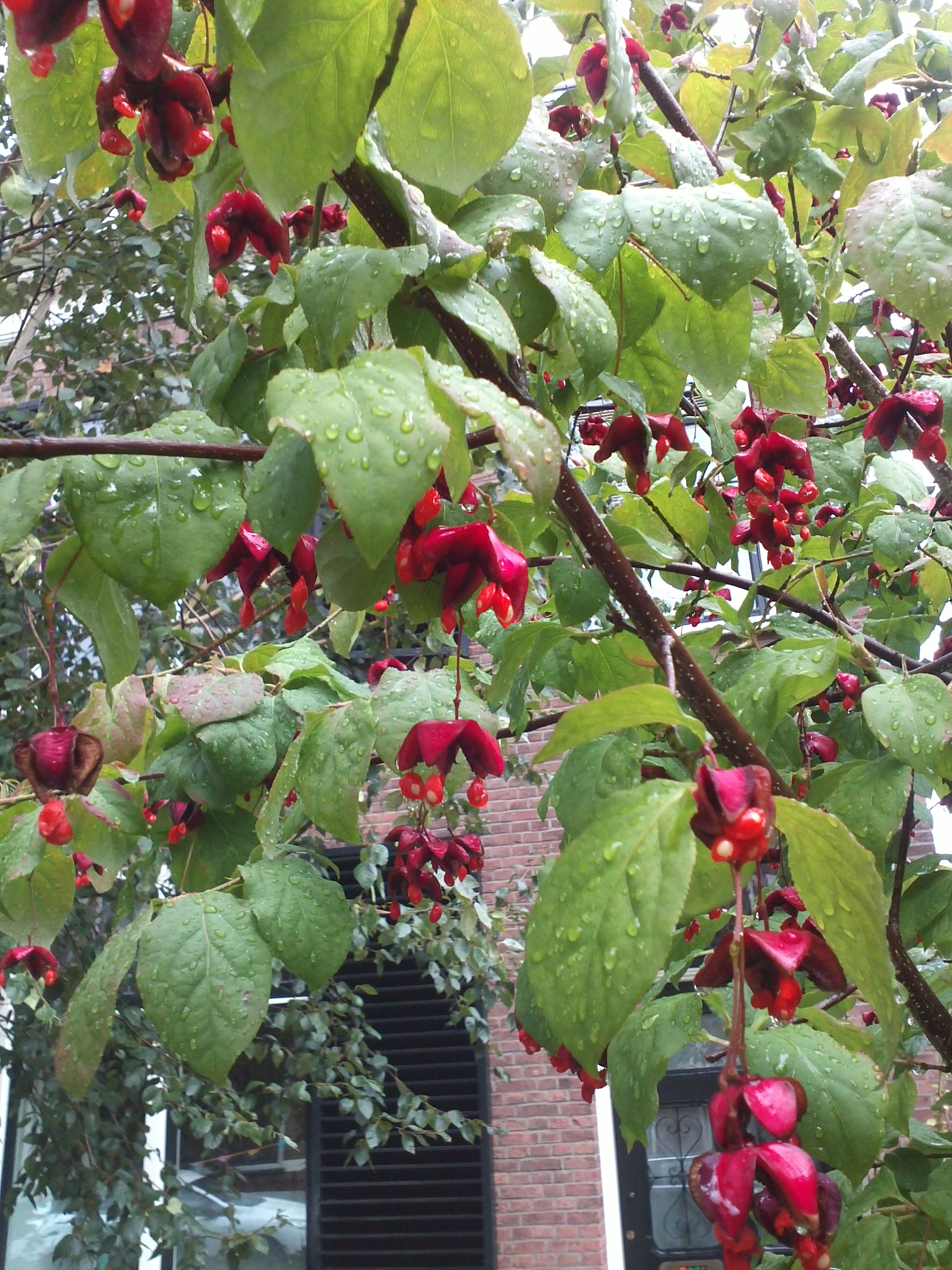 Euonymus planipes in a garden in Amersfoort (NL)